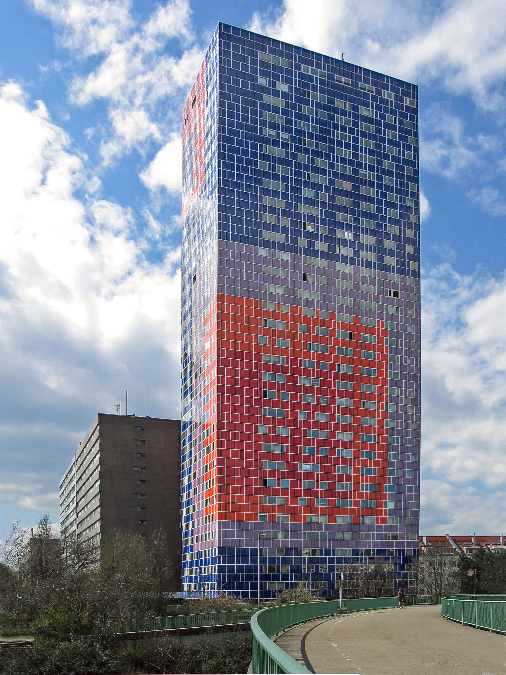 Herkulesbuilding, Cologne